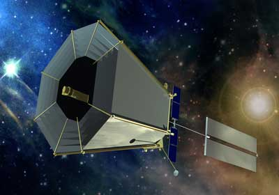 Terrestrial Planet Finder Coronagraph